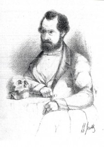 Line drawing of Thomas Bateman, Derbyshire Archaeologist, with hand on an ancient skull, drawn by his close friend Llewellyn Jewitt